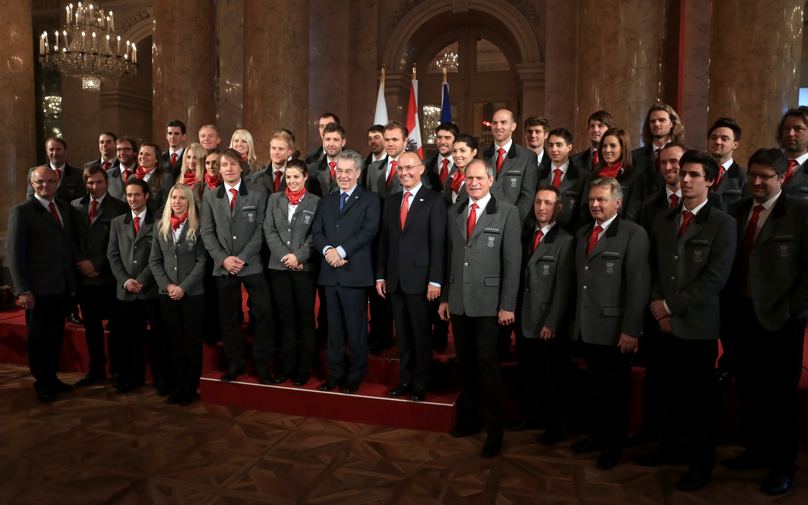 Athletes of the Austrian team for the 2014 Winter Olympics - Snowboard: Hanno Douschan, Julia Dujmovits, Anna Gasser, Alessandro Hämmerle, Benjamin Karl, Adrian Krainer, Marion Kreiner, Lukas Mathies, Ina Meschik, Susanne Moll, Andreas Prommegger, Maria Ramberger, Claudia Riegler, Markus Schairer, Clemens Schattschneider, Anton Unterkofler, Mathias Weißenbacher and support team with Federal President Heinz Fischer, Federal Minister Gerald Klug and ÖOC officials Karl Stoss and Peter Mennel; group picture taken at Hofburg Palace in Vienna, Austria.